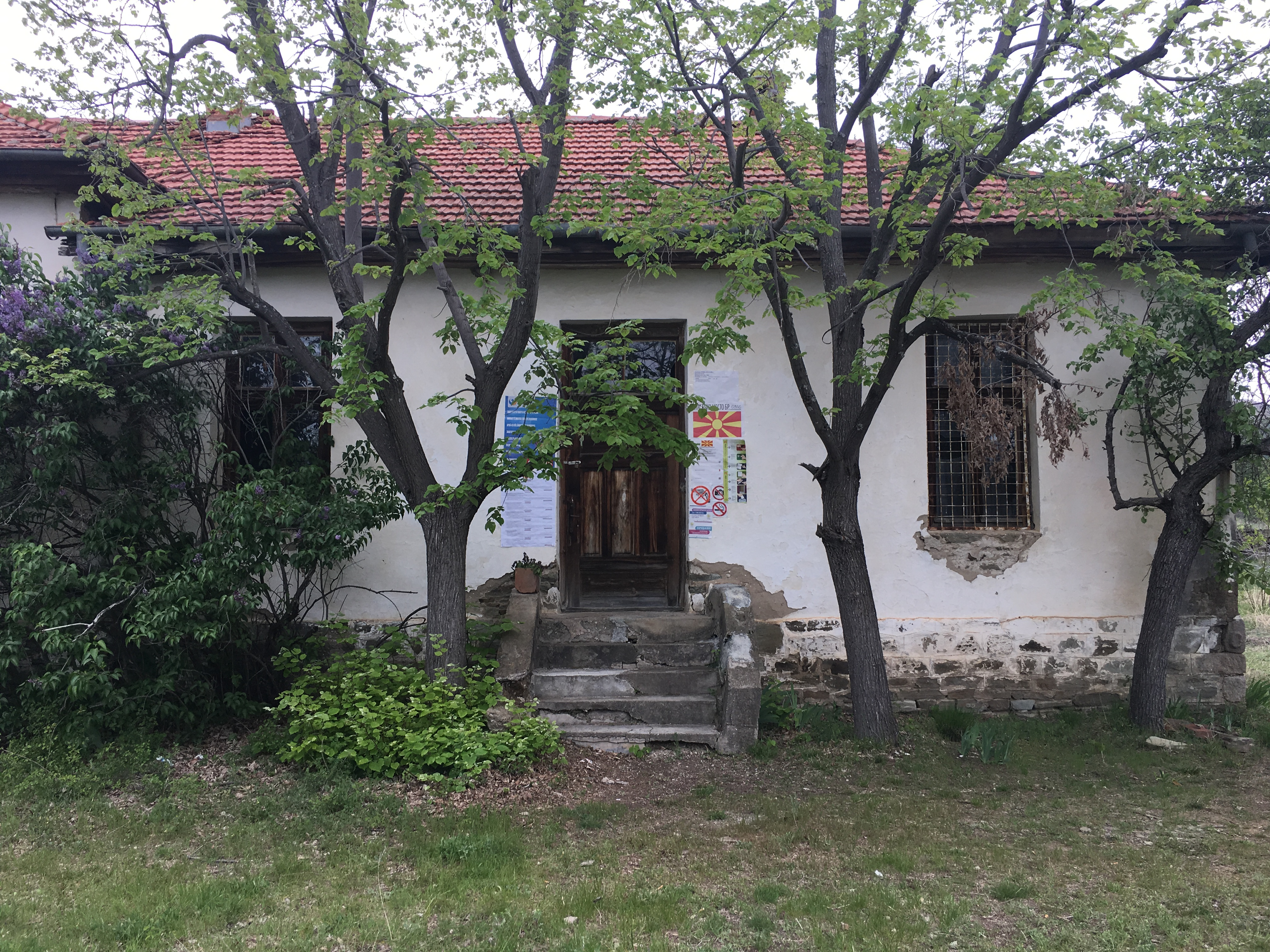 A voting booth in the village of Dlabočica